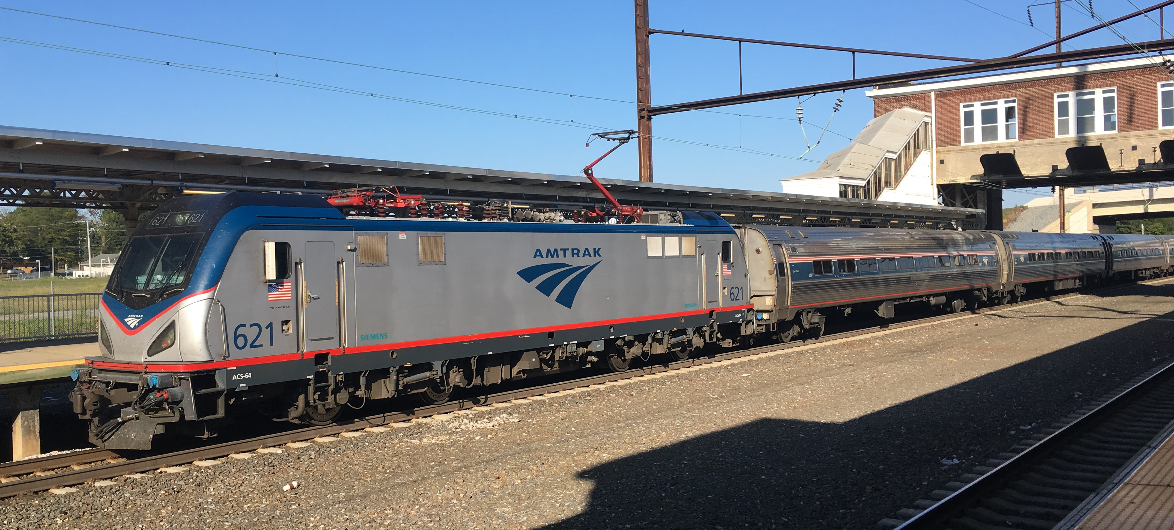 Amtrak Siemens ACS-64 621 leads a westbound Keystone Service train bound for Harrisburg, Pennsylvania into Lancaster Station in Lancaster, Pennsylvania